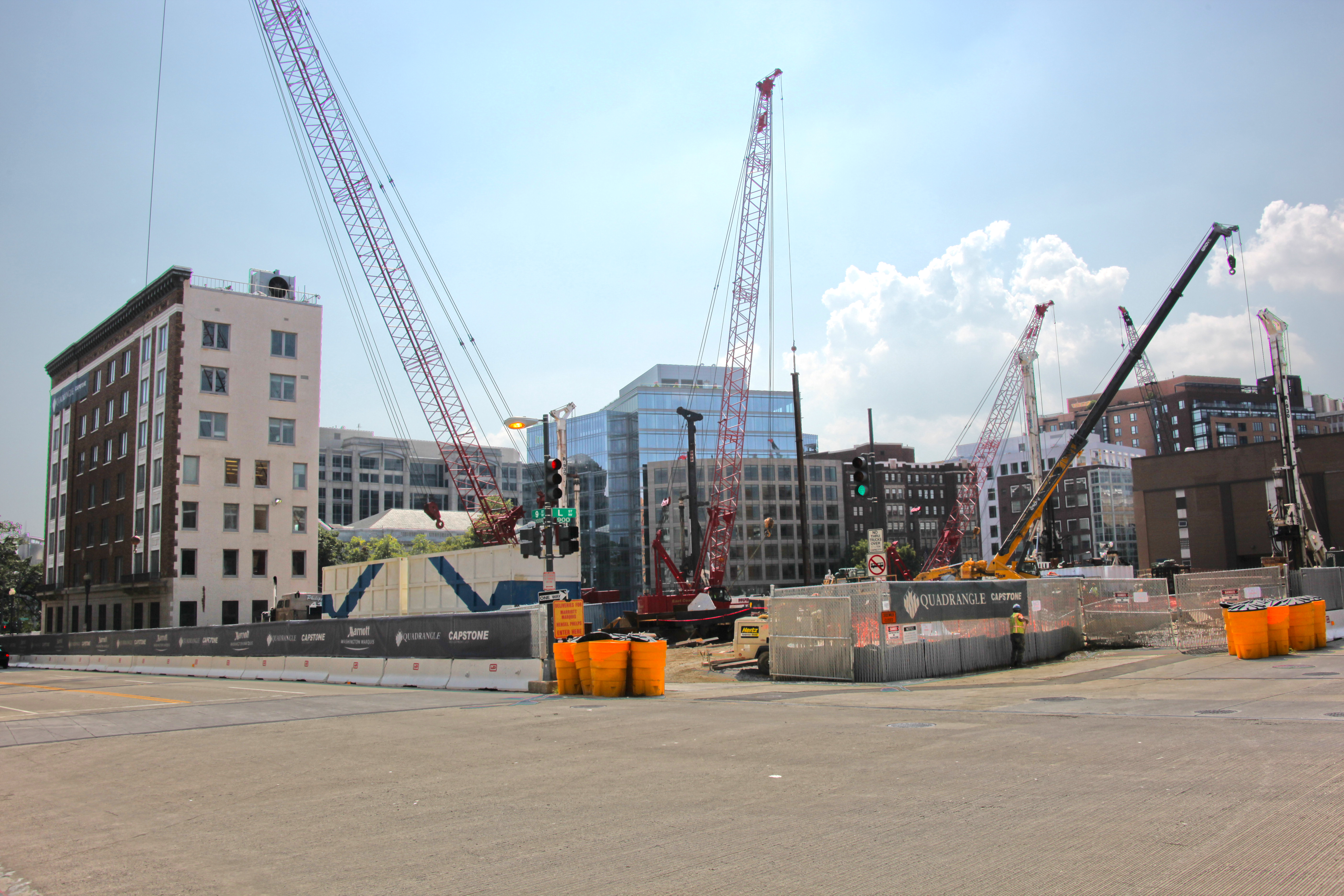 Looking southwest at the construction site for the Washington Marriott Marquis hotel in Washington, D.C., in the United States in August 2011. Construction on the hotel had been in progress for about a year, with excavation having reached about 50 feet (15 m) feet below ground. Completion of the project was scheduled for May 2014. 9th Street NW runs through the image in the foreground off to the left. L Street NW runs into the foreground from the right. The photographer was standing just in front of the Walter E. Washington Convention Center. A tunnel/concourse will lead from the Washington Marriott Marquis to the convention center, linking the two. The building still standing to the far left is the headquarters of the United Association of Journeymen and Apprentices of the Plumbing and Pipe Fitting Industry (the Pipefitters union), a national trade union in the U.S. It was constructed in 1916 and designed in a Modernist-modified Chicago School style by Louis Sullivan. The cornerstone was laid by President Woodrow Wilson. It served as the first headquarters of the American Federation of Labor (AFL), the largest trade union federation in the U.S. and the forerunner to the modern AFL-CIO. The AFL vacated the structure in 1956 after its merger with the Congress of Industrial Organizations (CIO). The Pipefitters union purchased it. The building is on the National Register of Historic Places, and the facade of the building is being incorporated into the Washington Marriott Marquis as a preservation effort.